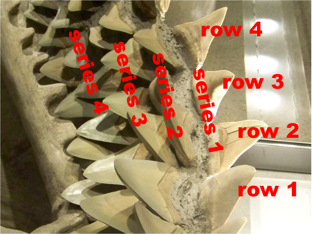 Illustration showing how to count shark teeth, with "rows", "series", and the first 3 series of four tooth rows labeled. Example species is Carcharocles megalodon.